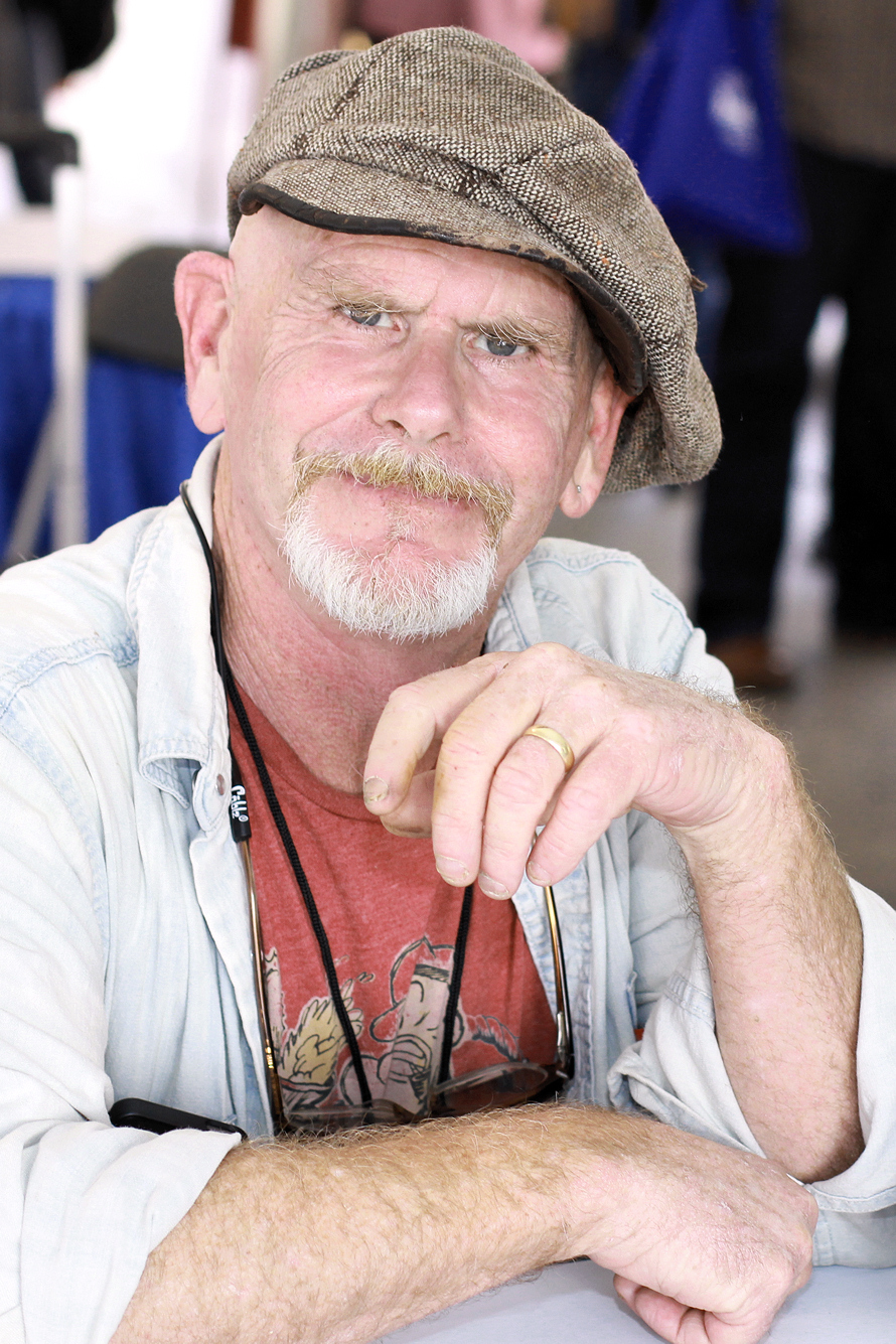 Author Seamus McGraw at the 2018 Texas Book Festival in Austin, Texas, United States.